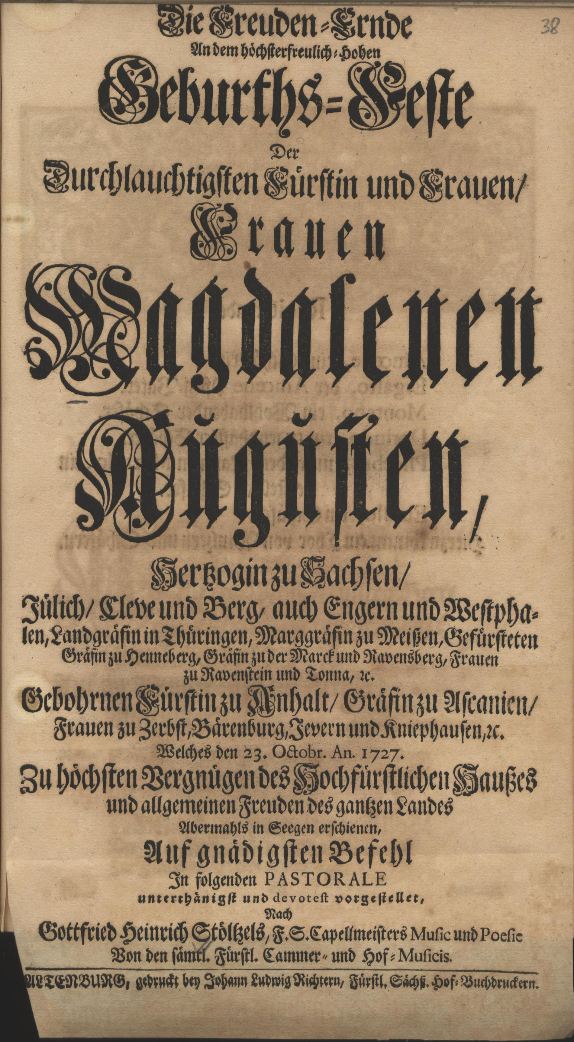 The title page for the text book to a musical serenata for the birthday celebrations of Princess Magdalena Augusta.